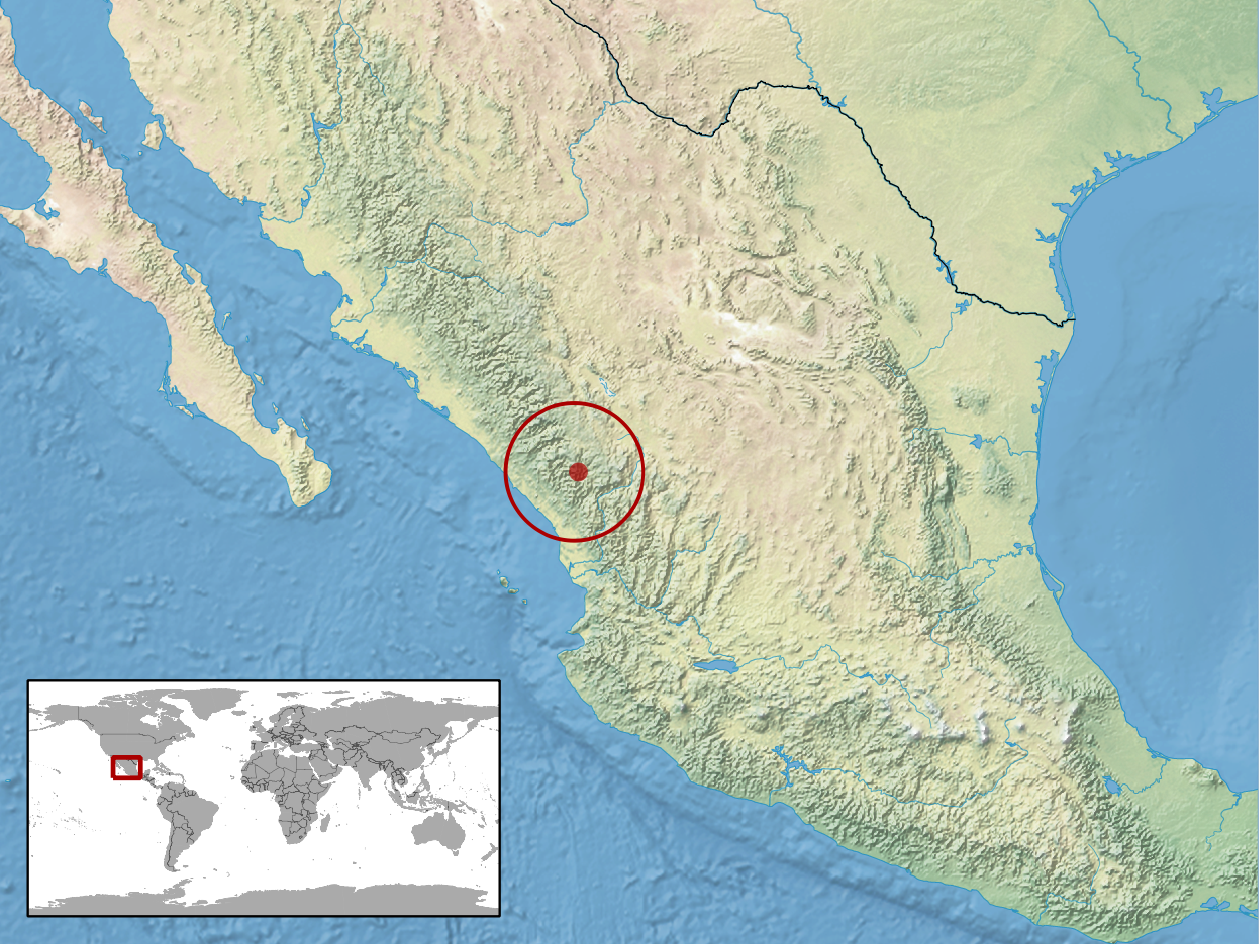 geographic distribution of Adelophis foxi (Native: Mexico)